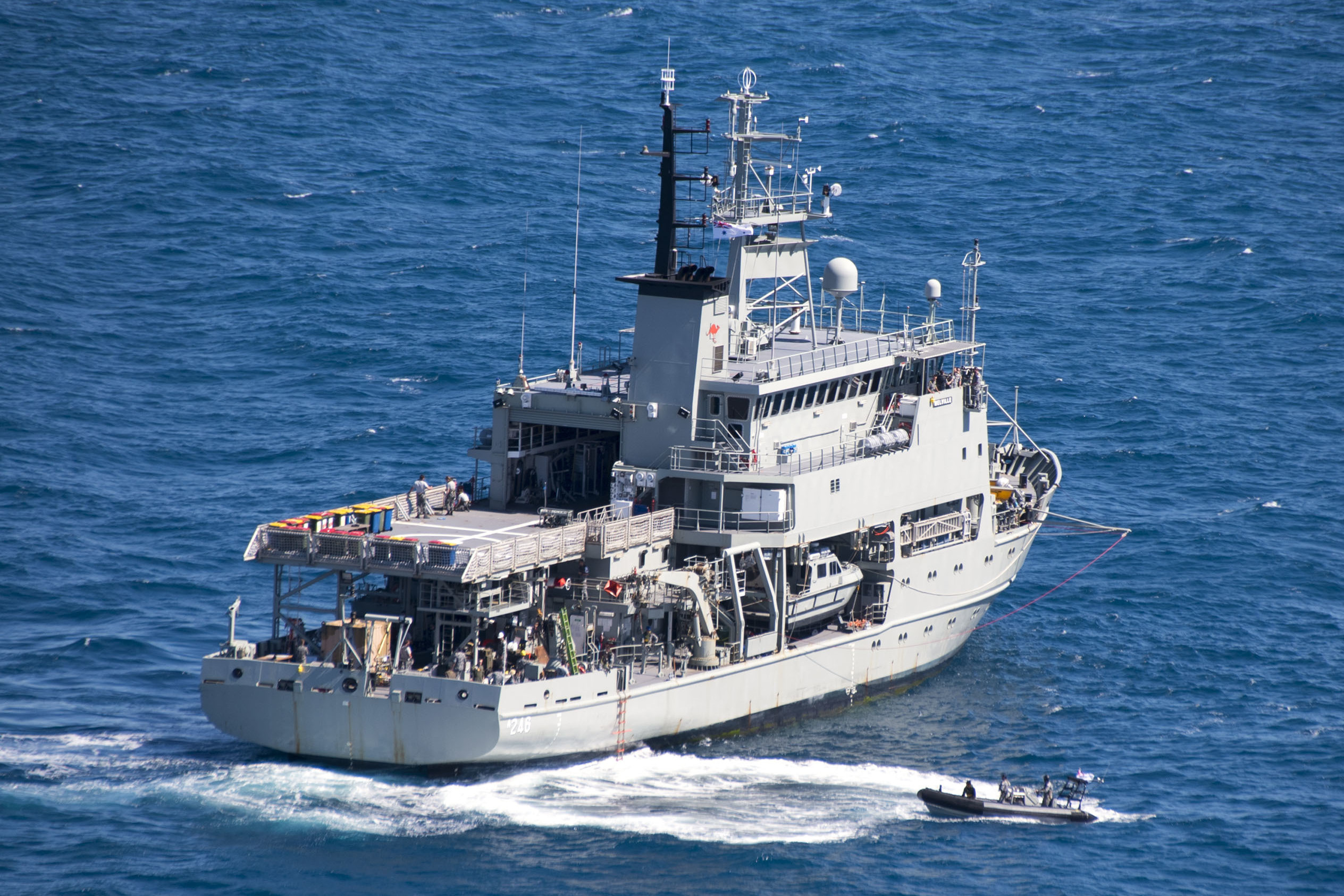 170808-N-WF272-678 CORAL SEA (Aug. 8, 2017) The Royal Australian Navy Leeuwin-class hydrographic survey ship HMAS Melville (A 246) conducts recovery operations connected to the MV-22B Osprey mishap. The Royal Australian Navy Clearance Diving Team (CDT) 1 will conduct a series of dives to retrieve information about the incident, search for remains and assist in the future salvage of the MV-22B. (U.S. Navy photo by Mass Communication Specialist 2nd Class Diana Quinlan/Released)